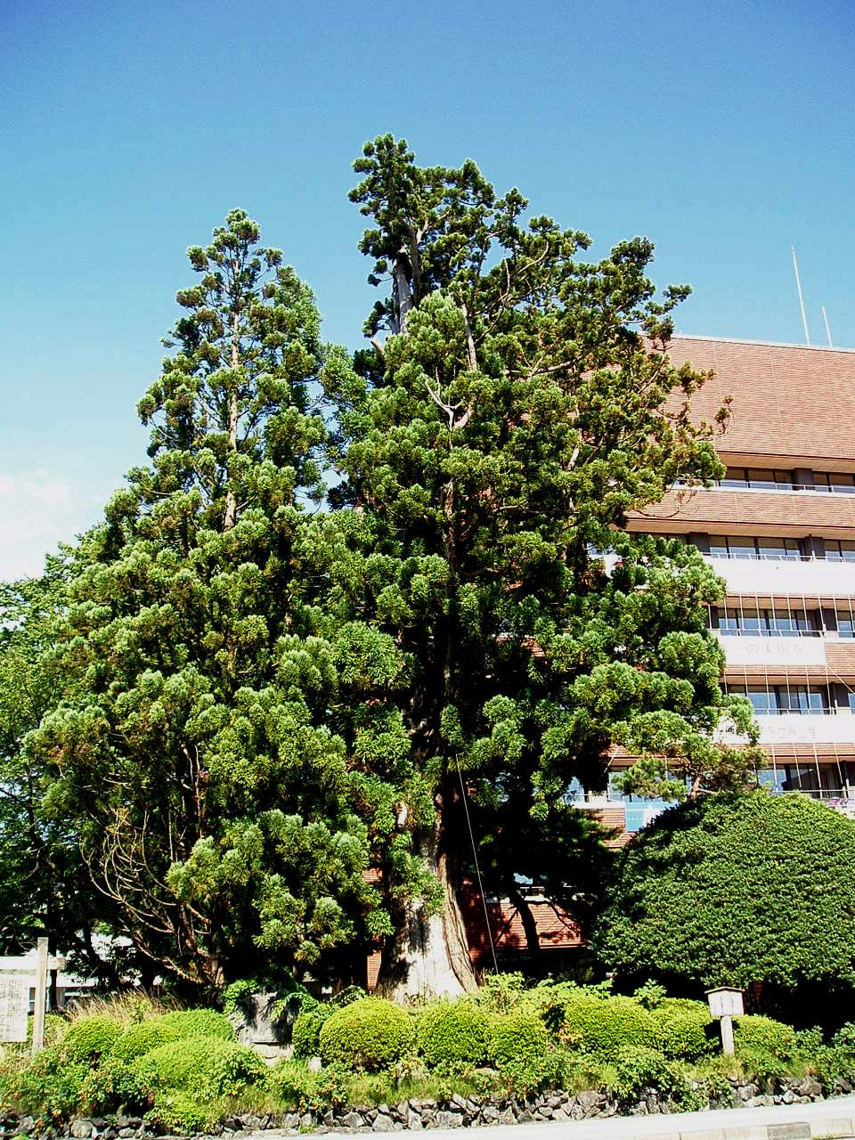 Uba sugi (Japanese cedar, Cryptomeria japonica) and Oshu City Hall at the former site of the Mizusawa Castle, located in Mizusawa-ku, Oshu City, Iwate Prefecture, Japan